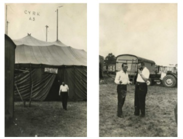 Aronov in Poland